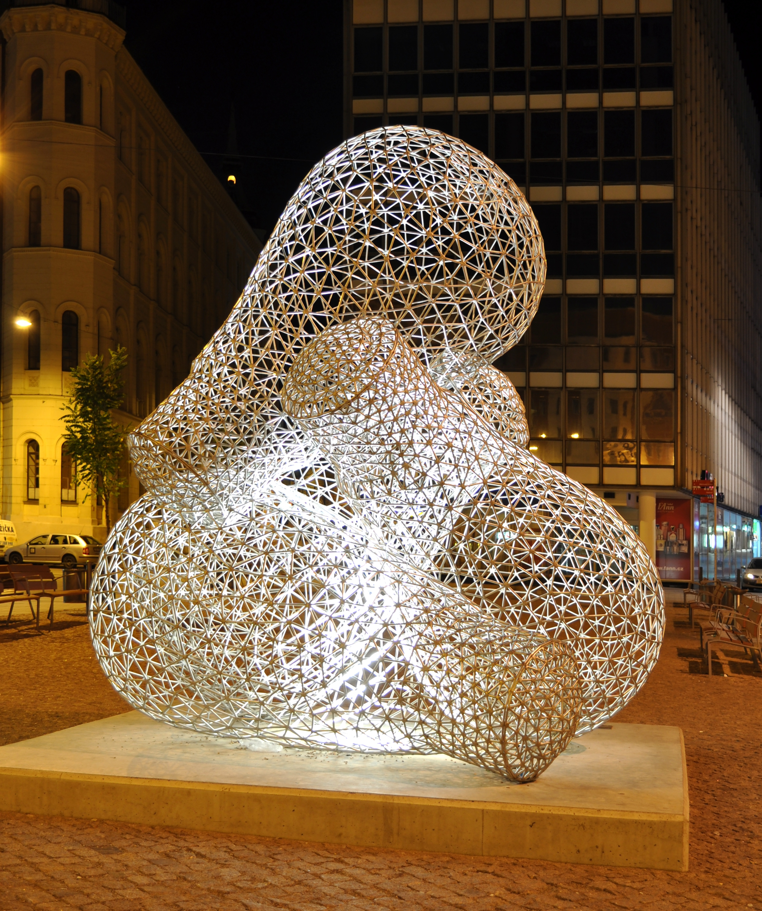 Žárovky na Malinovského náměstí v Brně